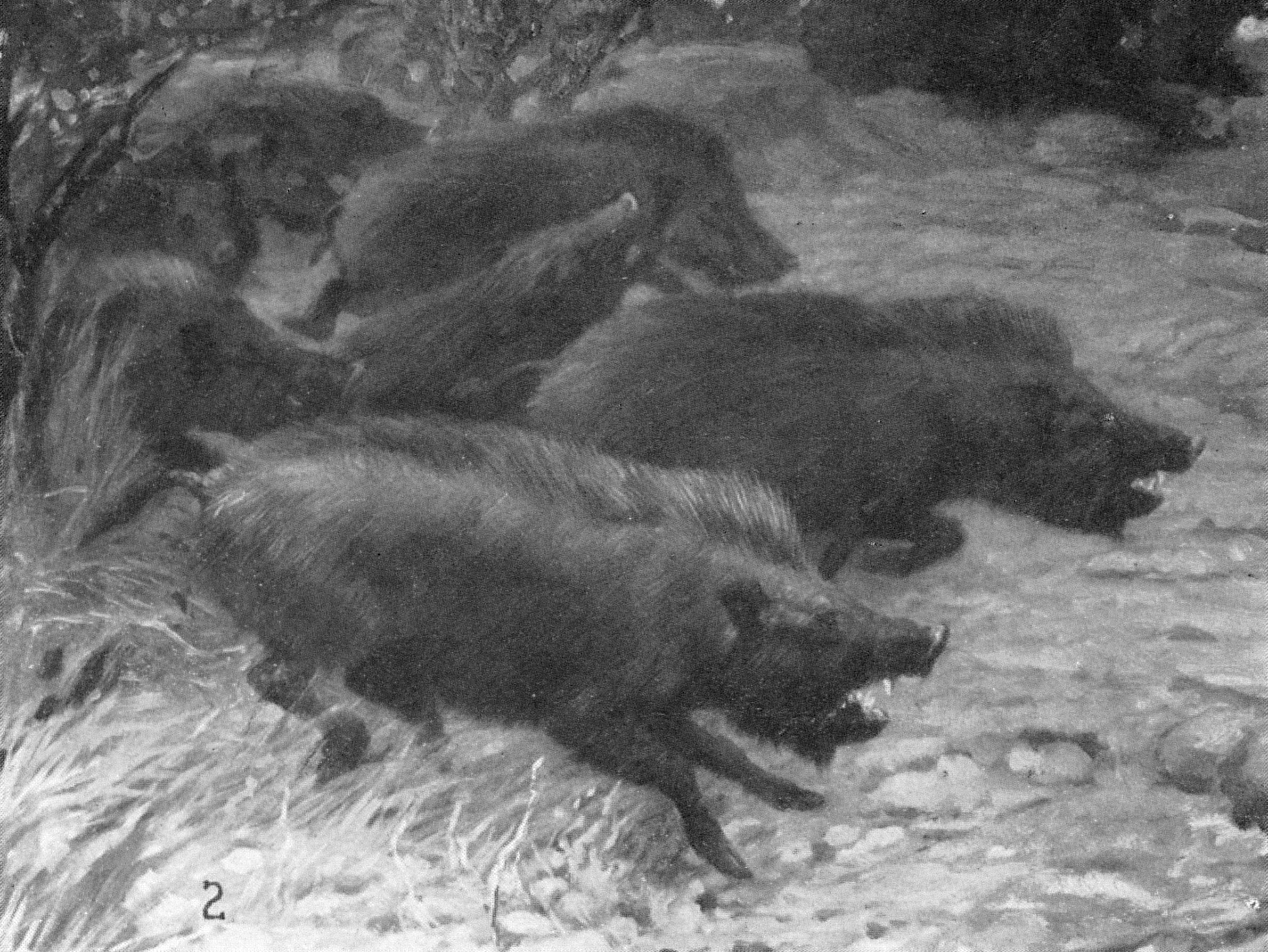 Platygonus leptorhinus. Extinct form of peccary which lived in late Pleistocene.